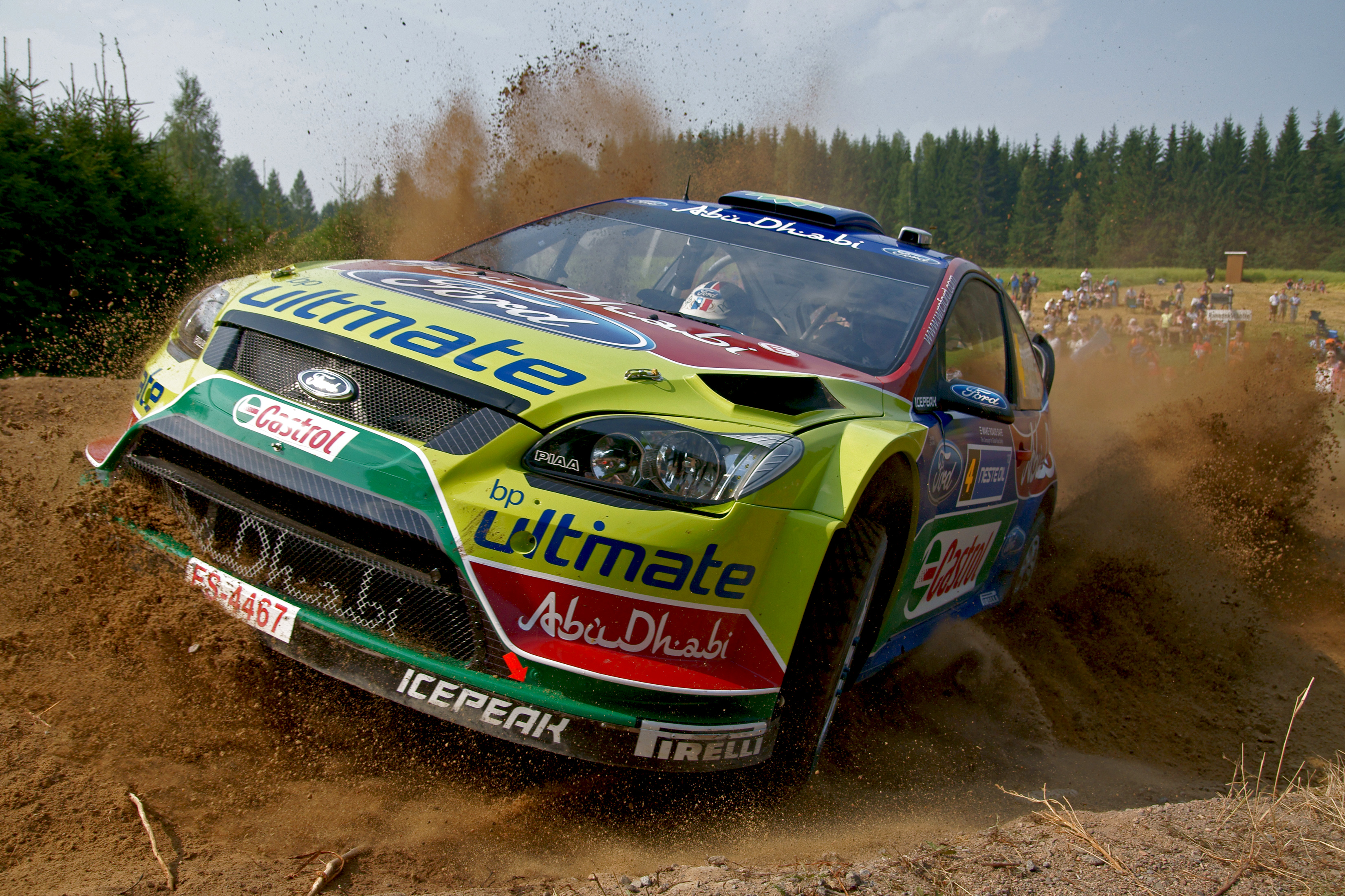 Jari-Matti Latvala, winner of the Neste Oil Rally Finland 2010, driving his Ford Focus RS WRC 09 at Rannankylä shakedown in Muurame.